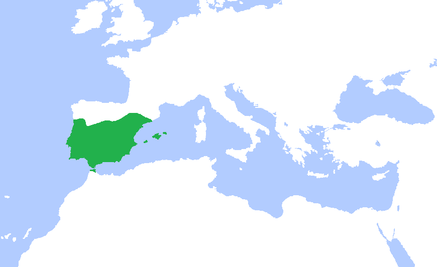 Locator map of the (Umayyad) Caliphate of Cordoba, c. 1000. (Partially based on Atlas of World History (2007) - The World 750-1000, map)